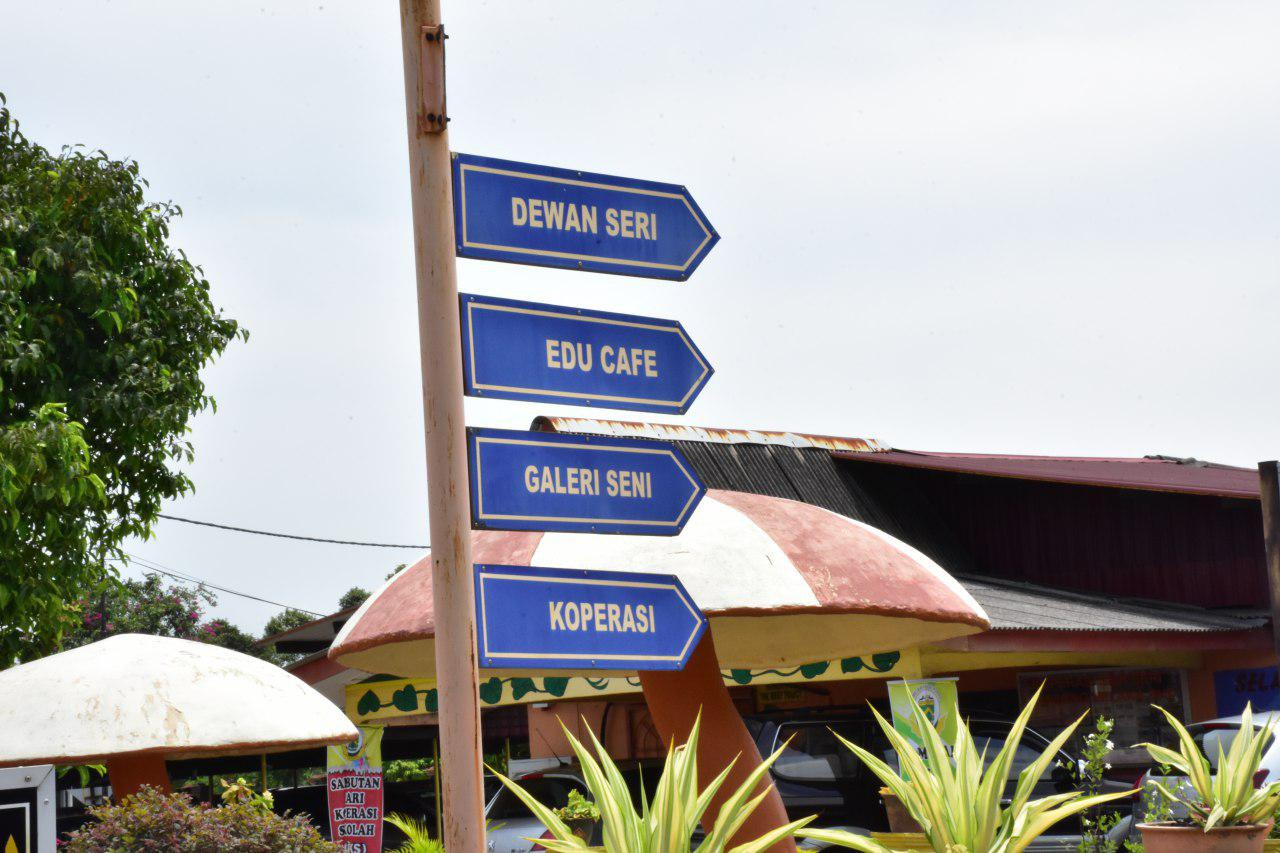 papan tanda